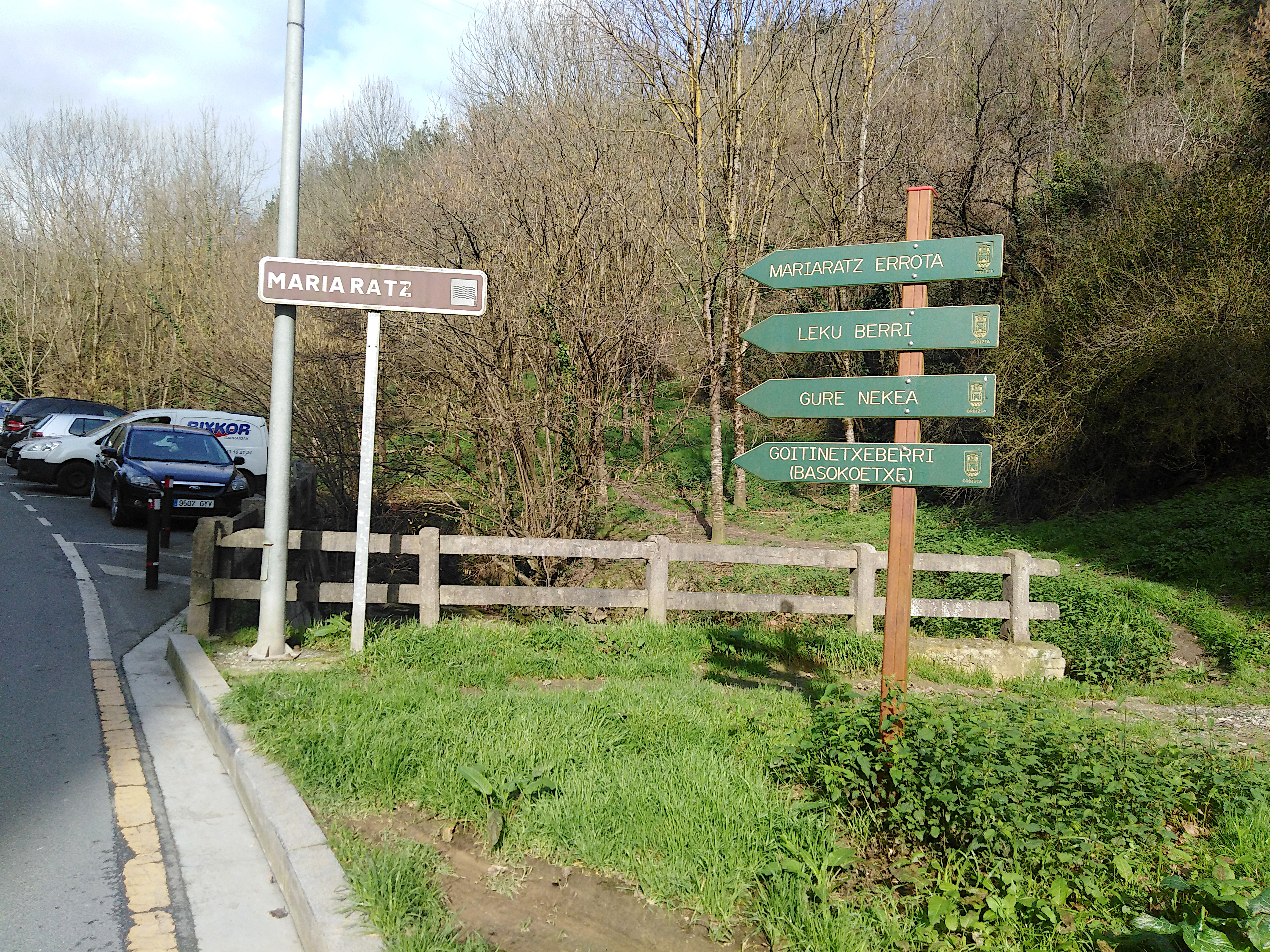 Mariarats, Ordizia, Gipuzkoa, Basque Country